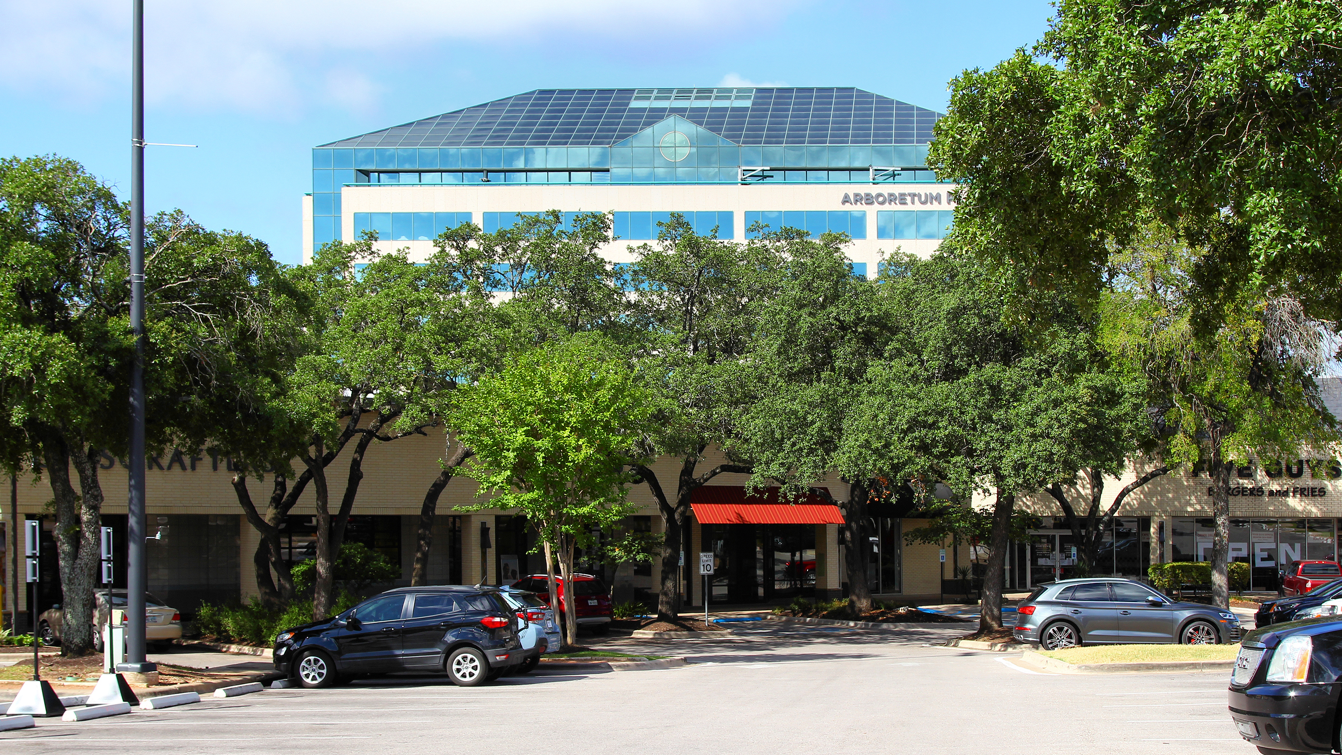 Many large trees shade the shops around The Arboretum at Great Hills in Austin, Texas, United States.